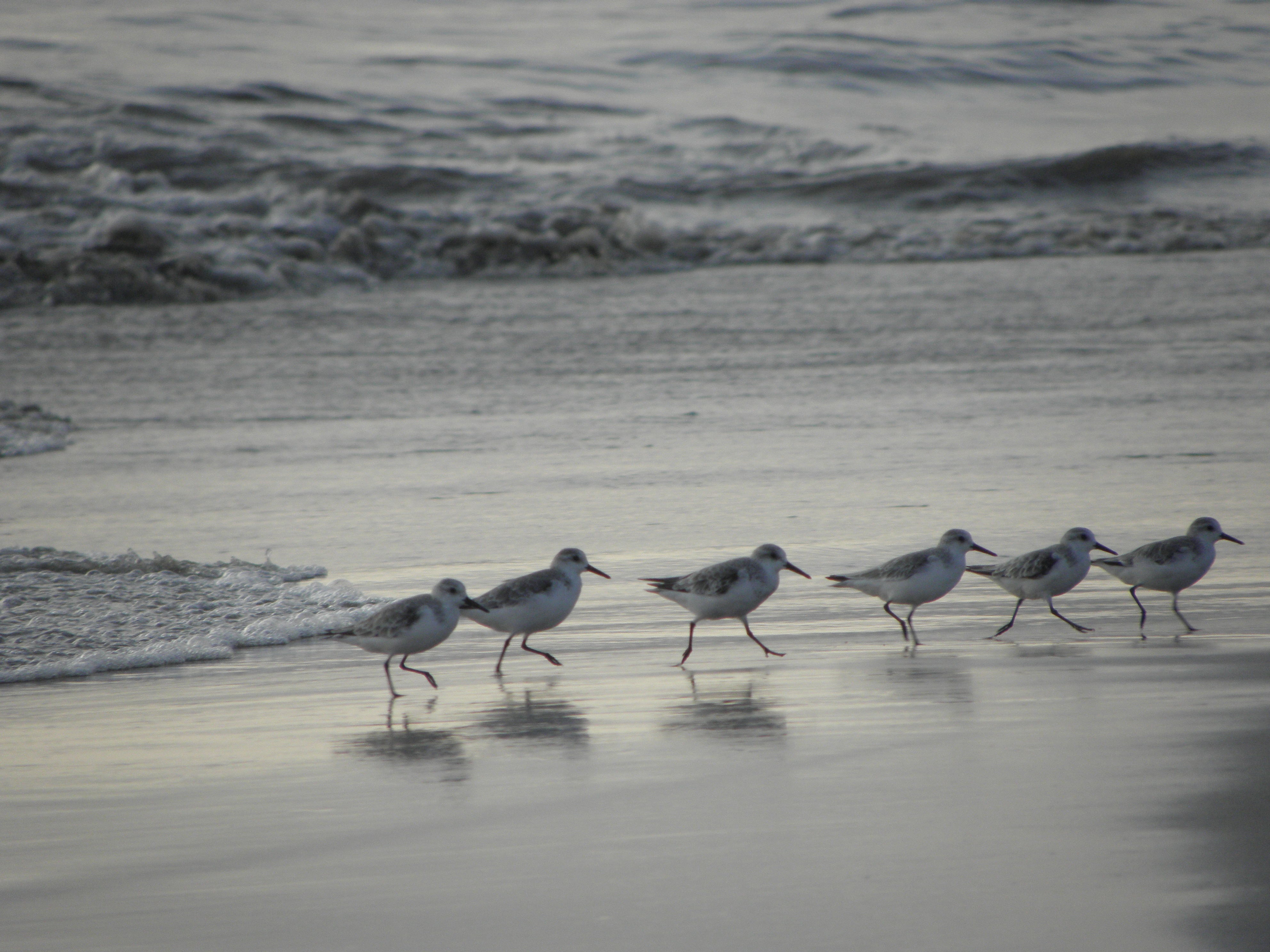 Sanderling at chavakkad, kerala, india